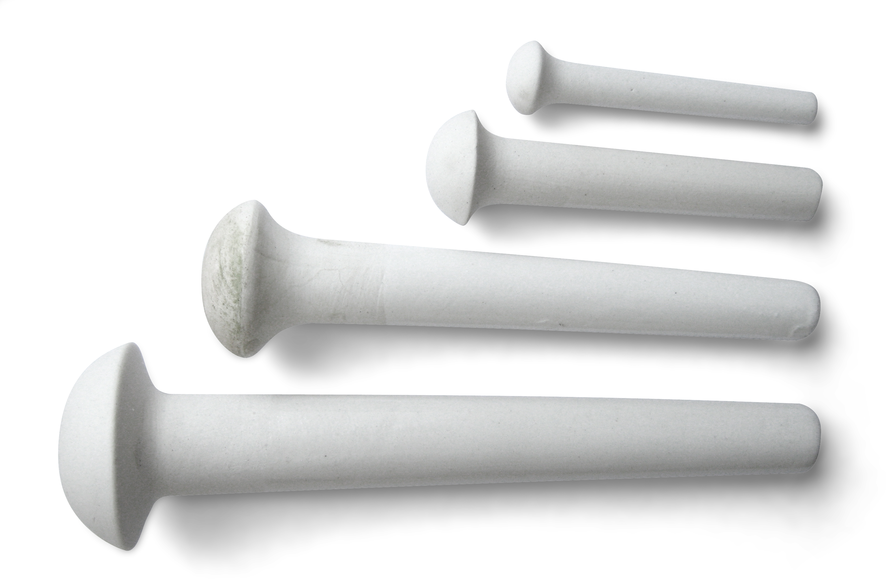 pestles size 1-4